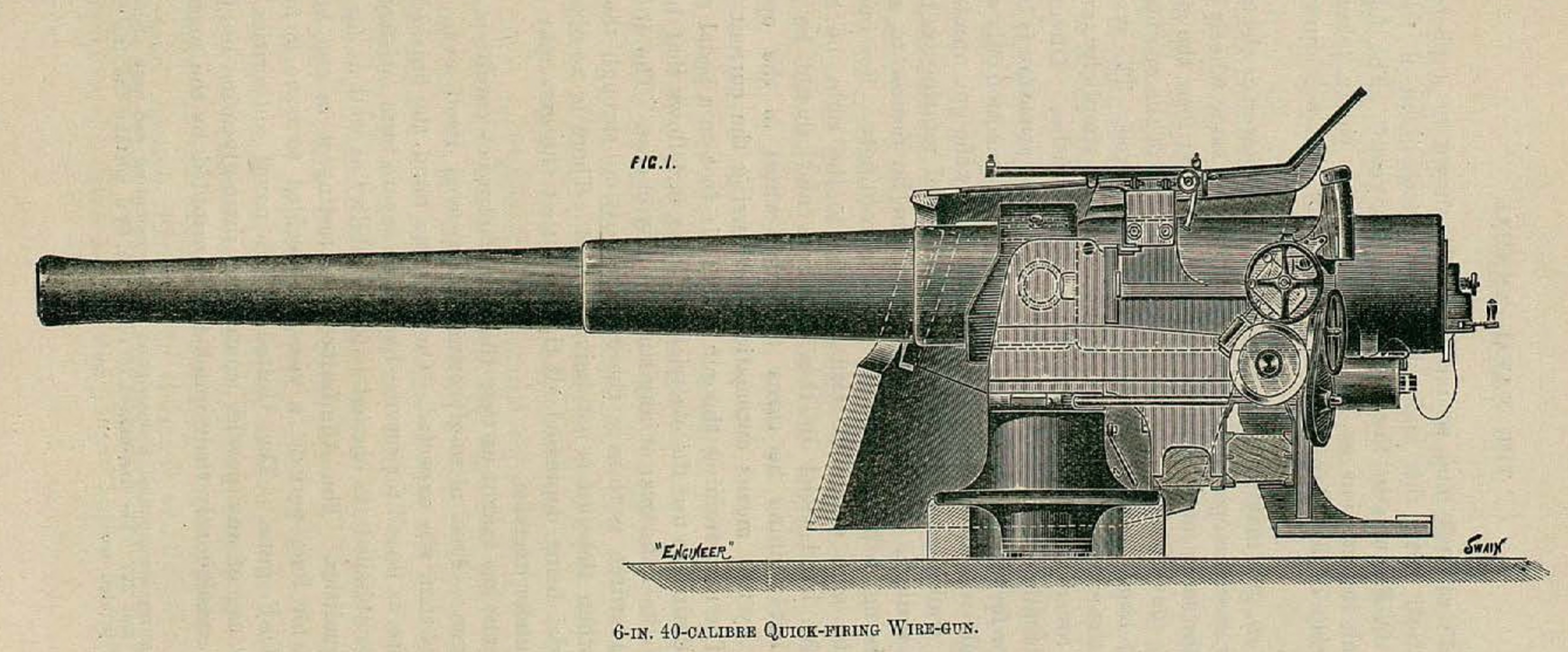 Diagram depicting 6-inch 40-calibre Quick-firing wire-wound gun.